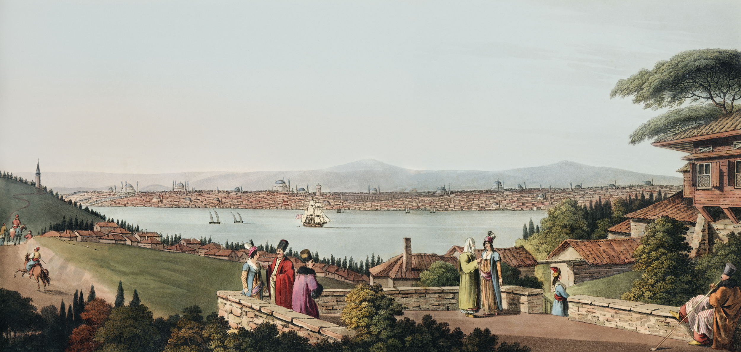 View of Constantinople from Views in the Ottoman Dominions, in Europe, in Asia, and some of the Mediterranean islands (1810) illustrated by Luigi Mayer (1755-1803).